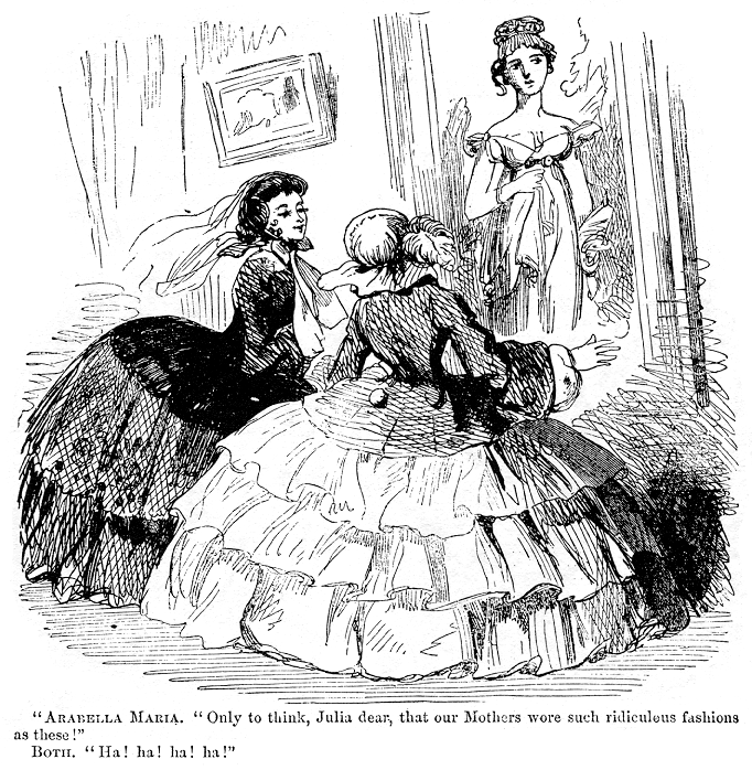 A satirical cartoon from the July 11th 1857 issue of Harper's Weekly (New York), on the difference between Regency clothing styles of the early 1800's and the Victorian fashions of the time: Two girls or young women of 1857 (wearing full crinolines) are viewing a painting of a woman in early nineteenth-century neo-Grecian attire. Caption: ARABELLA MARIA: "Only to think, Julia dear, that our Mothers wore such ridiculous fashions as these!" BOTH: "Ha! ha! ha! ha!" (Actually, it would more probably have been their grandmothers...)